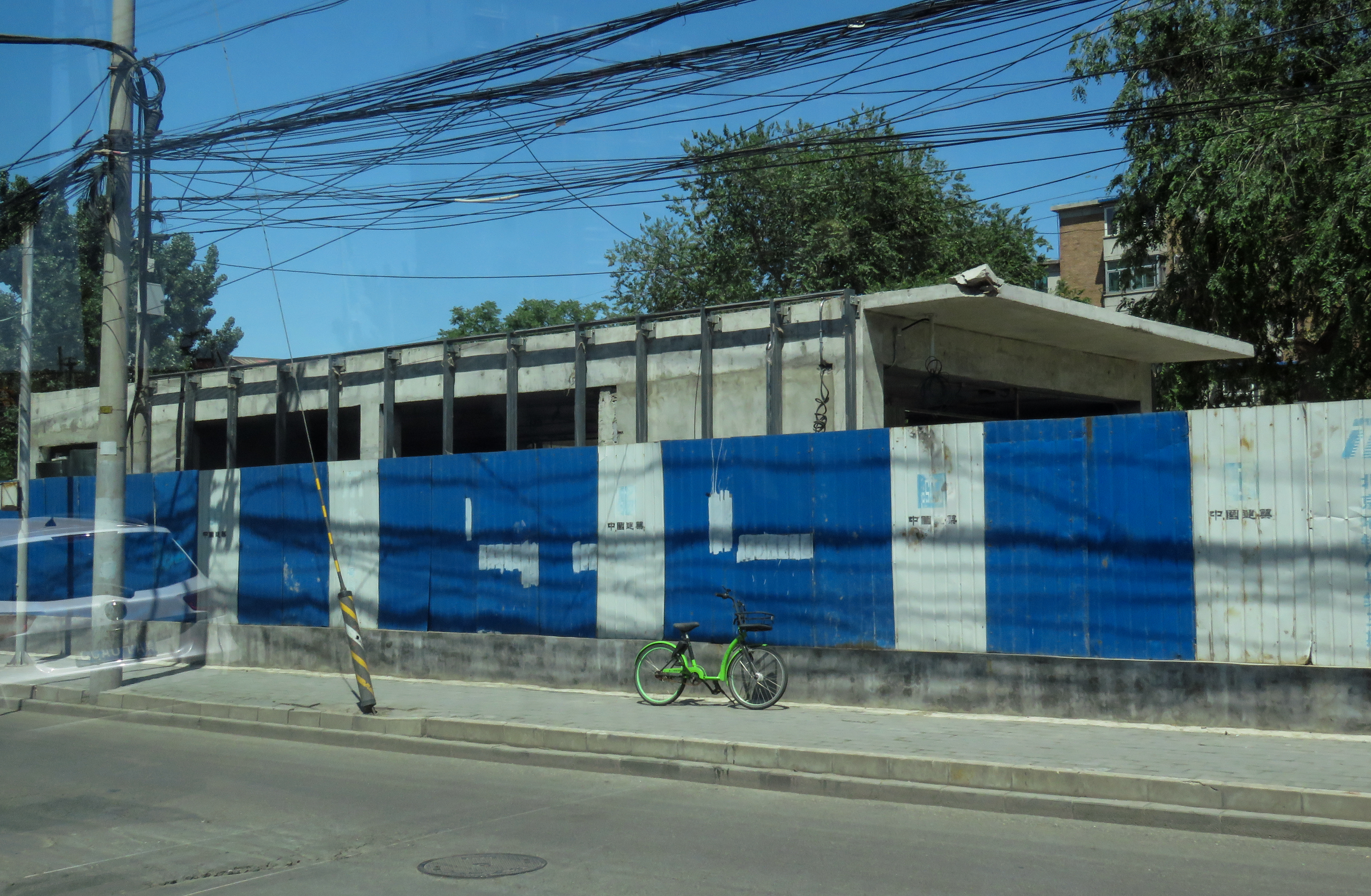 Still at the north of 4th Ring Rd.